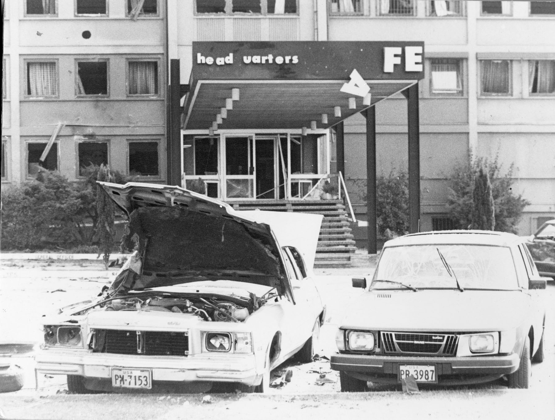 Aftermath of the 1981 Red Army Faction bombing of U.S. Air Forces Europe headquarters at Ramstein Air Base, Germany.